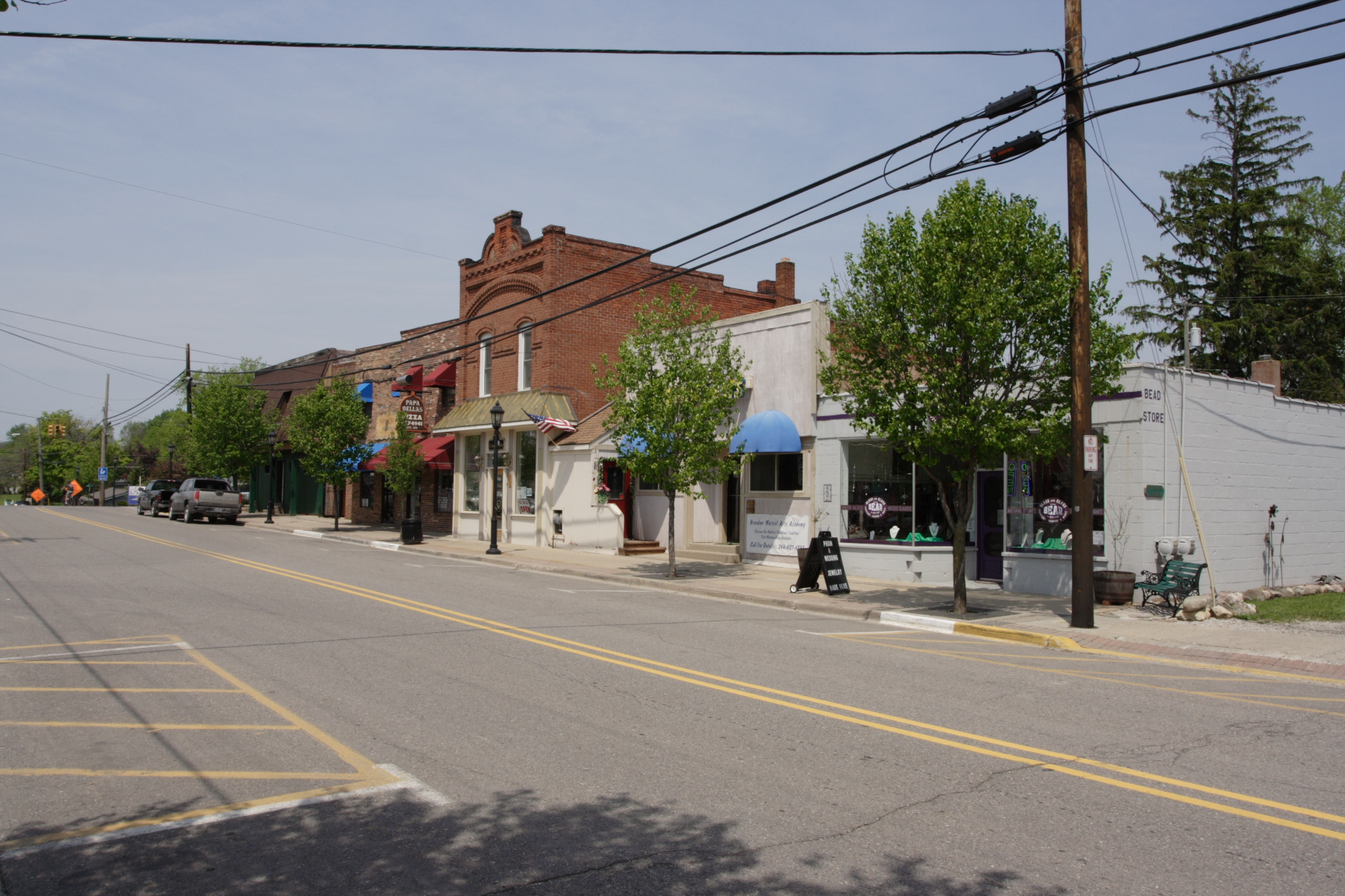 The view of Ortonville looking down Mill Street.